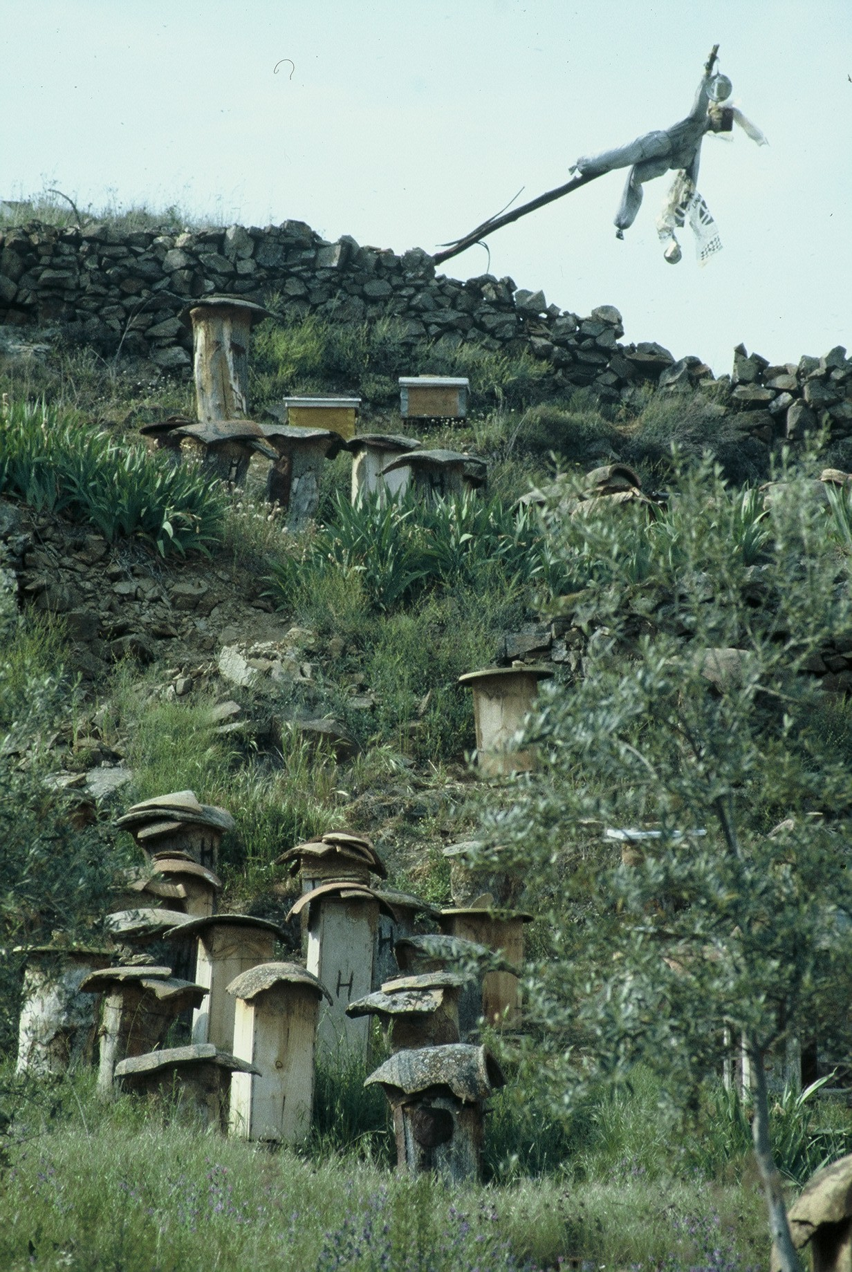 Traditional colmenar and scarecrow (Valdepeñas de la Sierra, Guadalajara) Spain